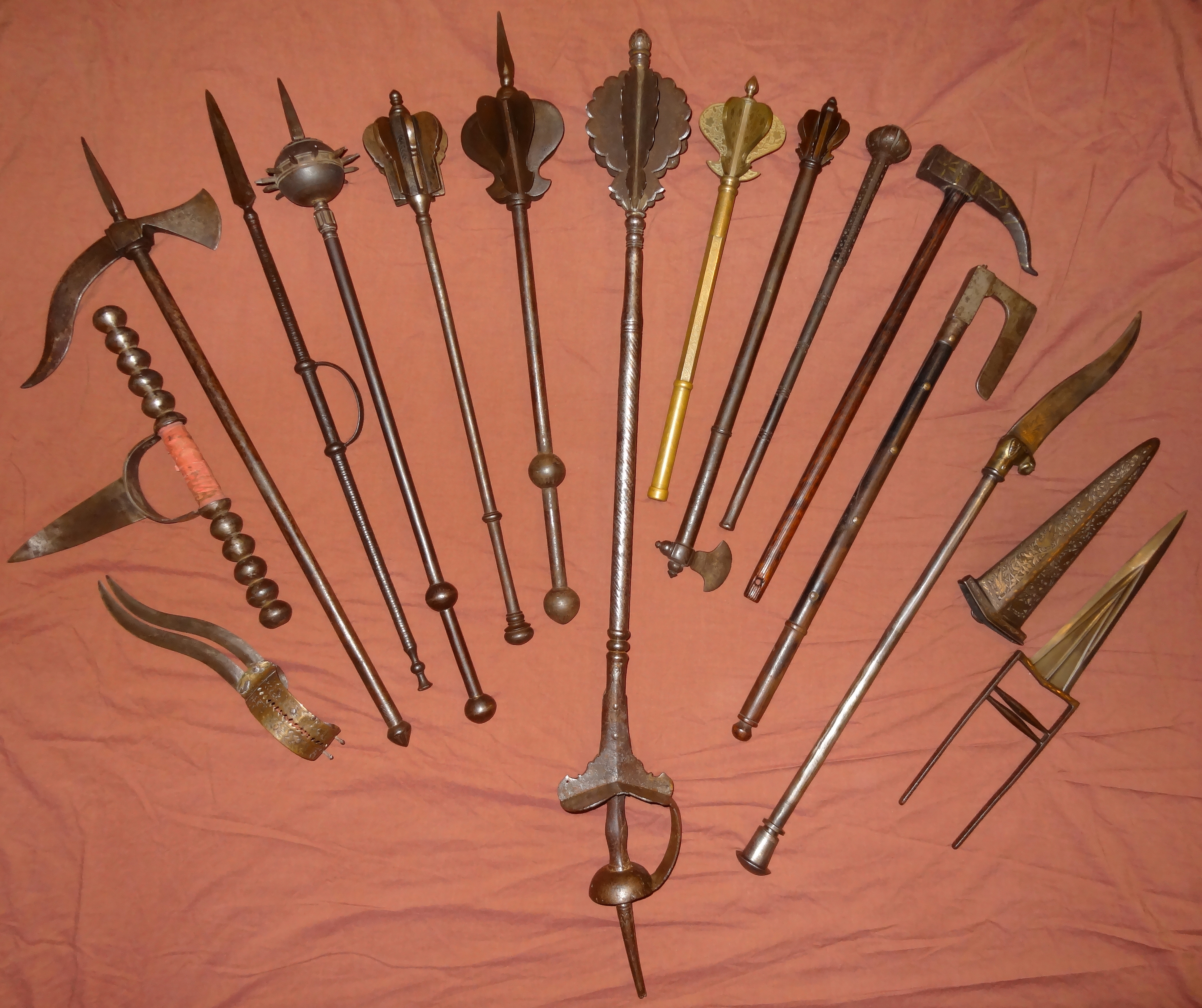 Various Indo-Persian weapons. From the left:Bichwa, sainti, tabar-zaghnal, saintie, gurtz, shishpar, shishpar, shishpar, shishpar, tabar-shishpar, bozdogan / buzdygan, kulunk, tabar, bhuj, katar.